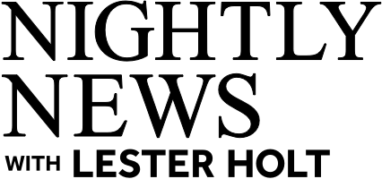 Logo for NBC Nightly News w/ Lester Holt